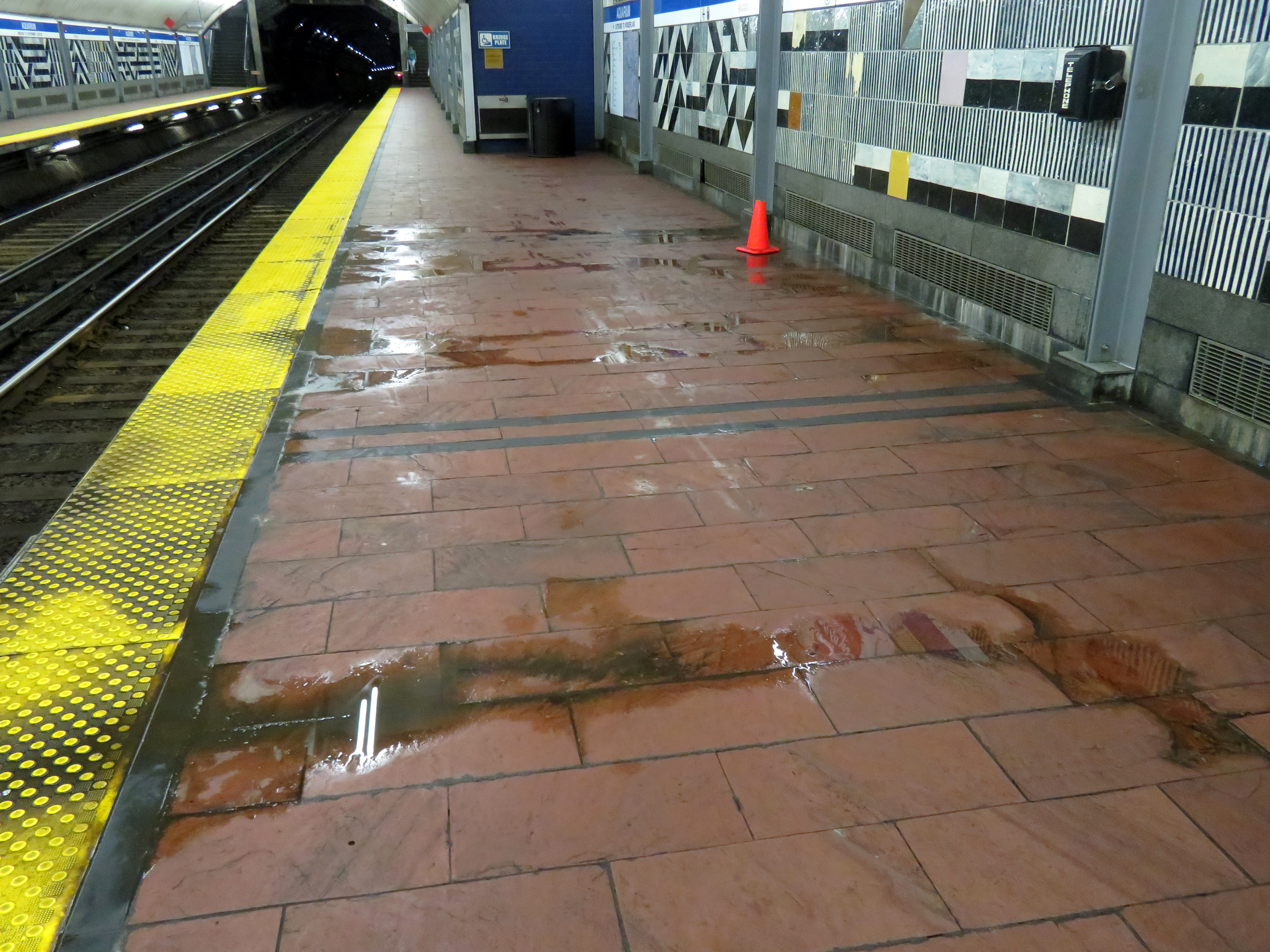 Water leaking on the eastbound platform at Aquarium station in July 2019